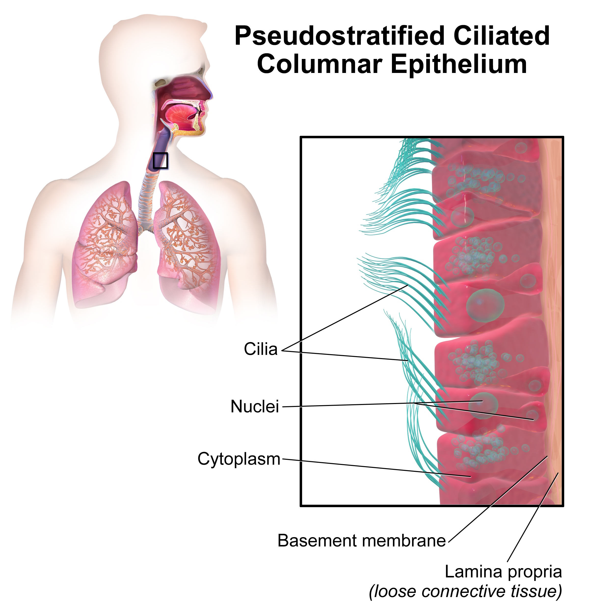 Ciliated Epithelium. See a full animation of this medical topic.